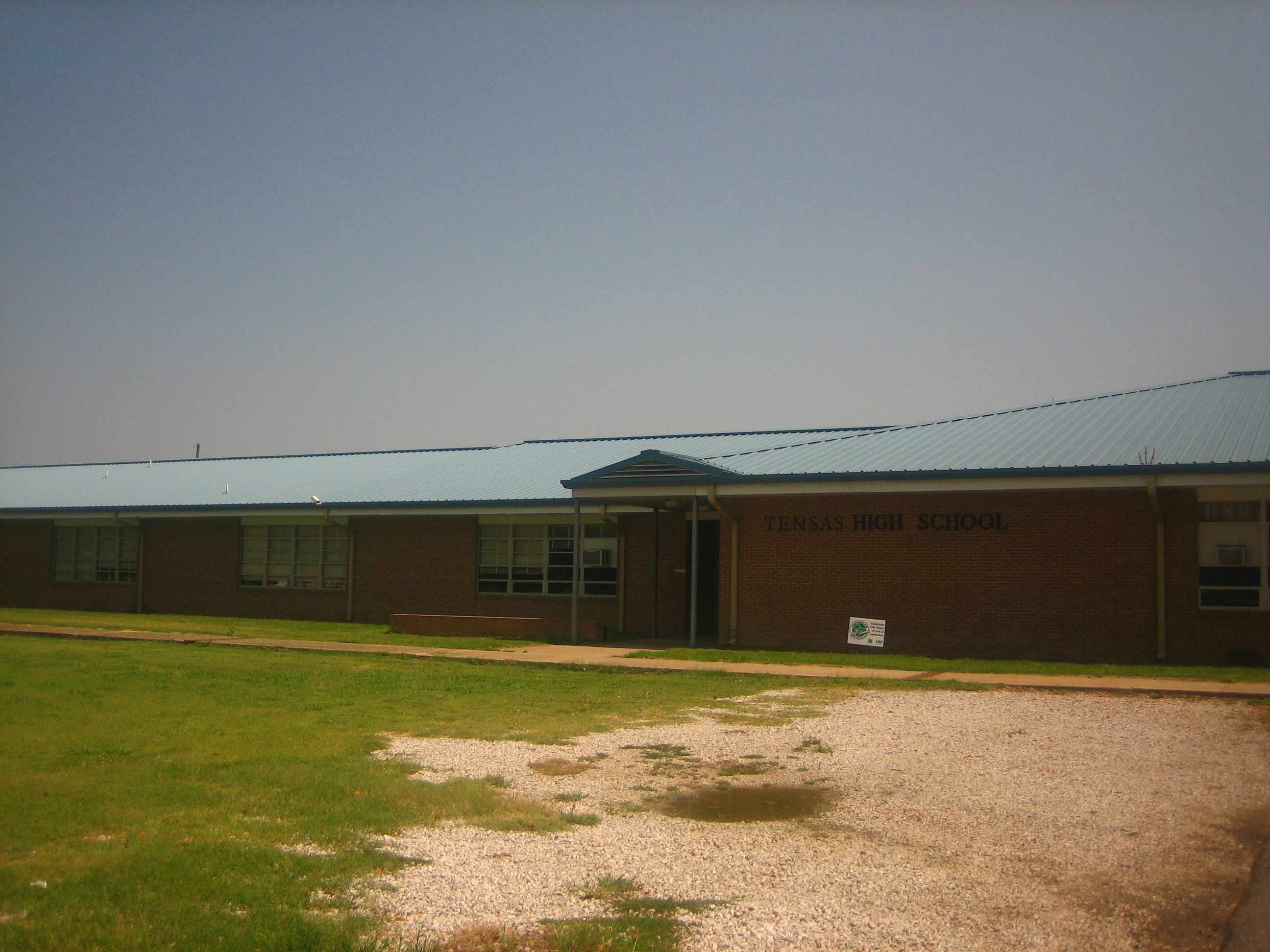 I took photo on Aug. 2, 2008.Billy Hathorn (talk) 13:19, 16 August 2008 (UTC)